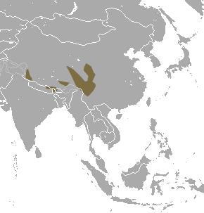 Moupin Pika (Ochotona thibetana) range